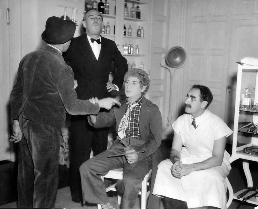 Photo of director Sam Wood and the Marx Brothers (Chico, Harpo and Groucho) on the set of A Day at the Races.